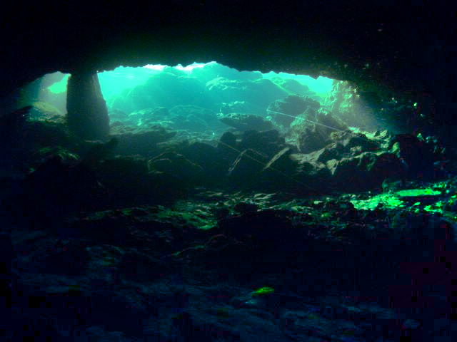 Entrance to Peacock Springs Cave System (Photo by Walter Pickel - March 2005)